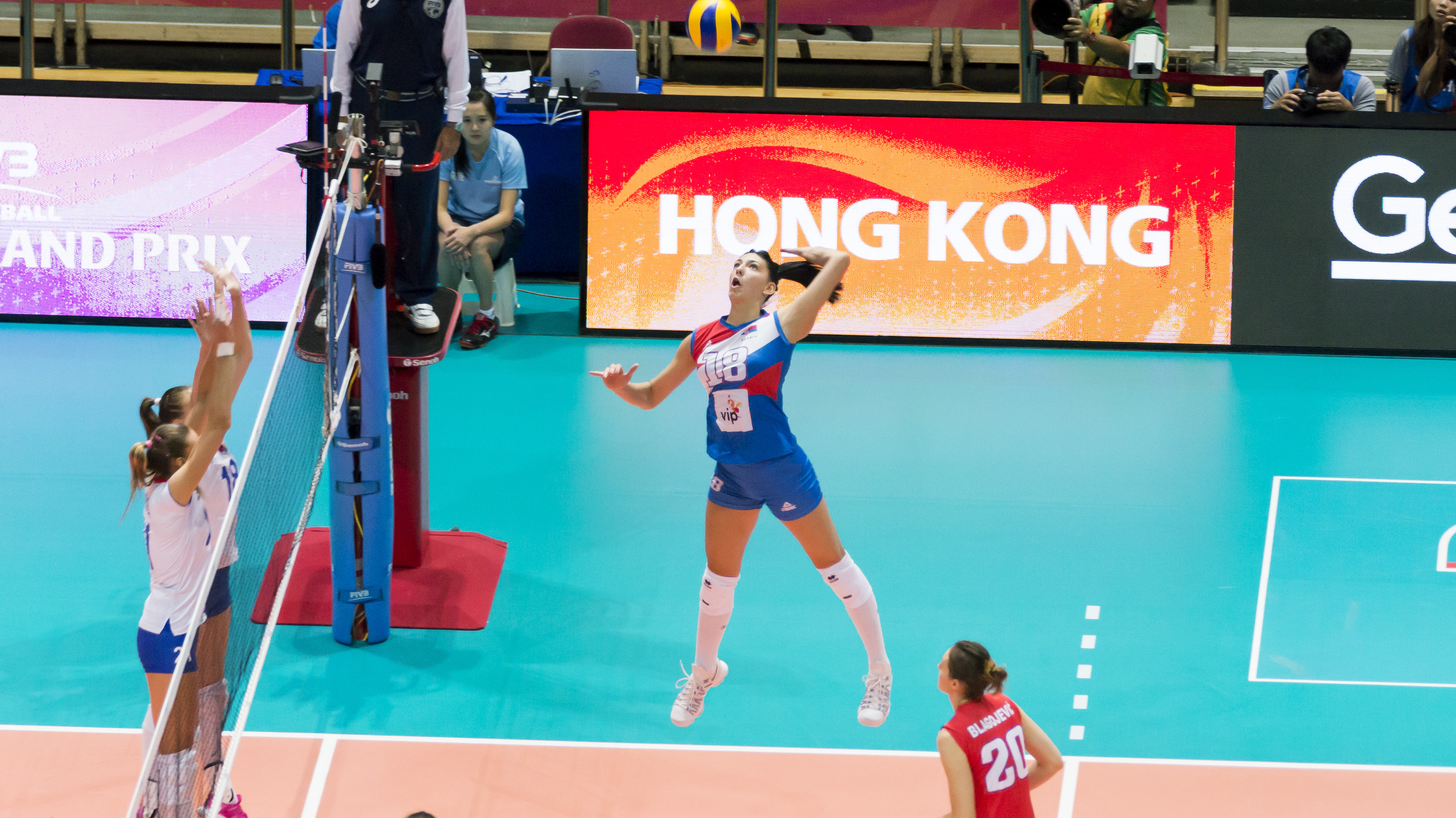 Tijana Bošković in attack (team Serbia) Grand Prix 2017